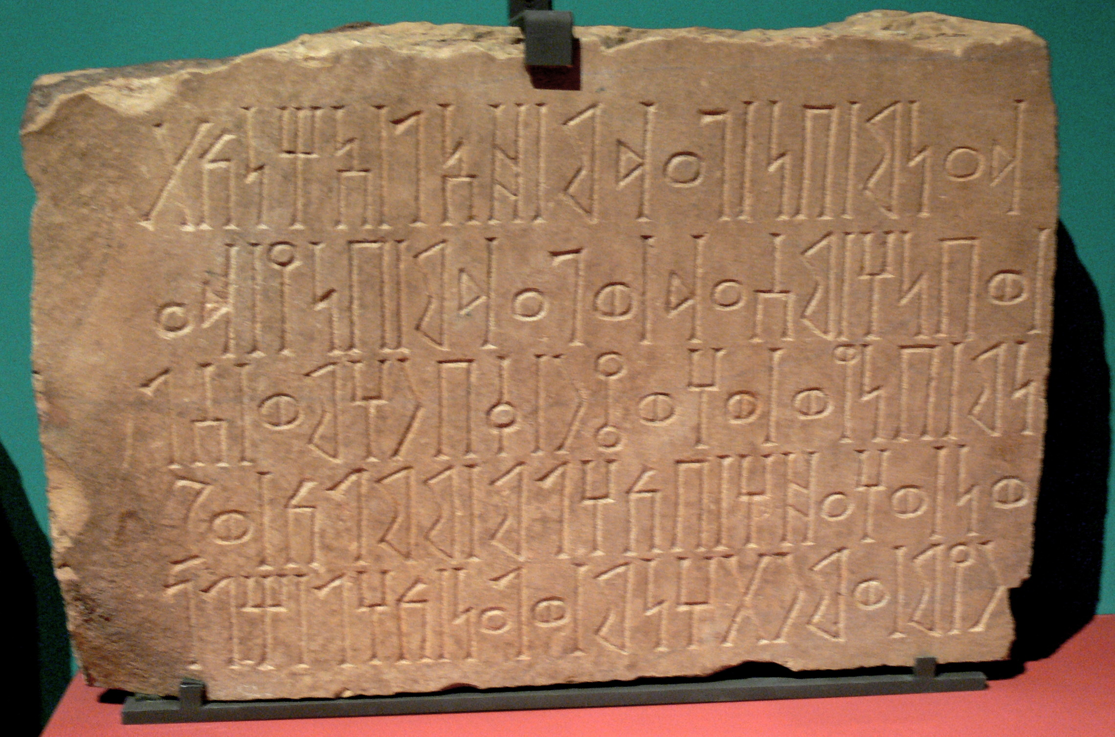 Pergamon Museum ( Berlin ). Exhibition "Roads of Arabia": Stone plaque with Sabaean donation inscription for a mausoleum ( 1st century BC ), limestone, 67x44x12 cm, from Qaryat al-Faw ( Department of Archaeology Museum, King Saud University, Riyadh ).